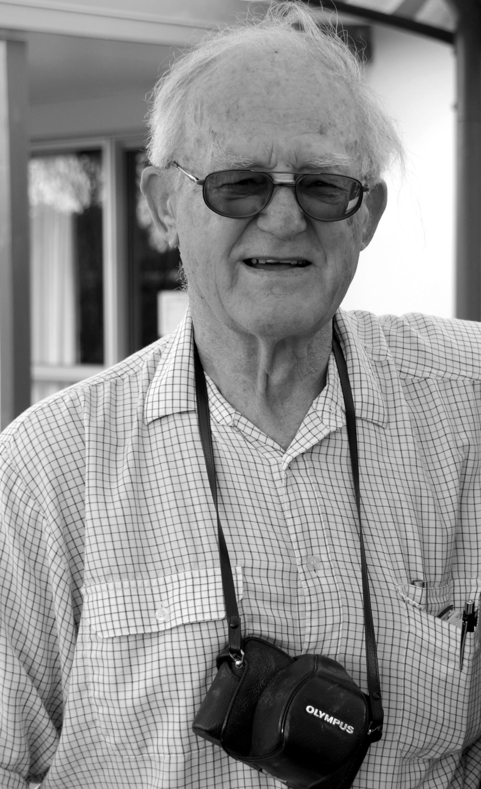 Elwyn Richardson revisiting Oruaiti School, 2008